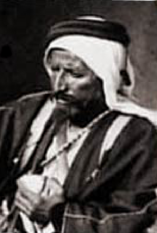 Only known photograph of Auda Abu-Tayeh